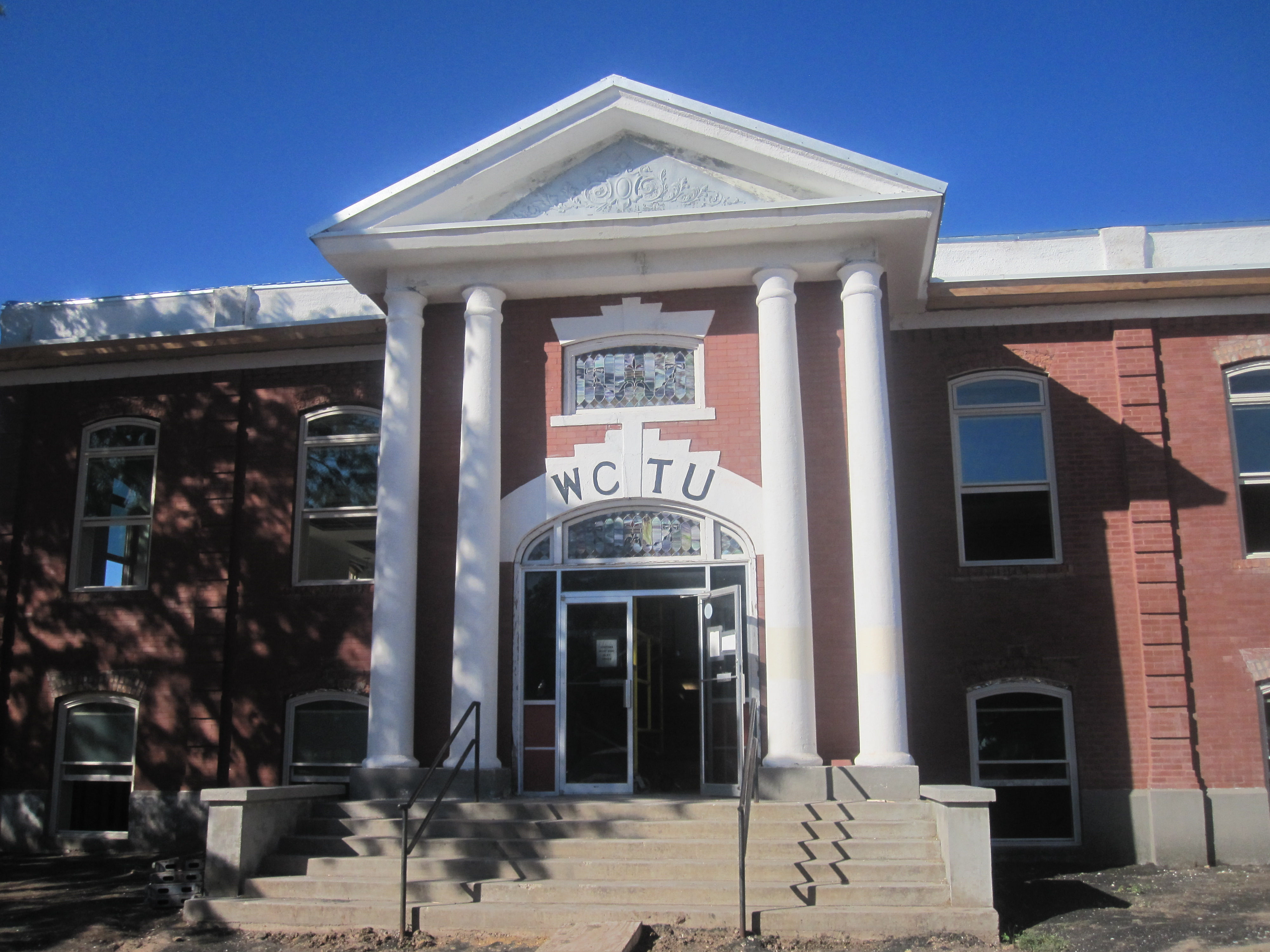 I took photo with Canon camera in Canadian, Texas. The former WCTU building is being converted into a new library.